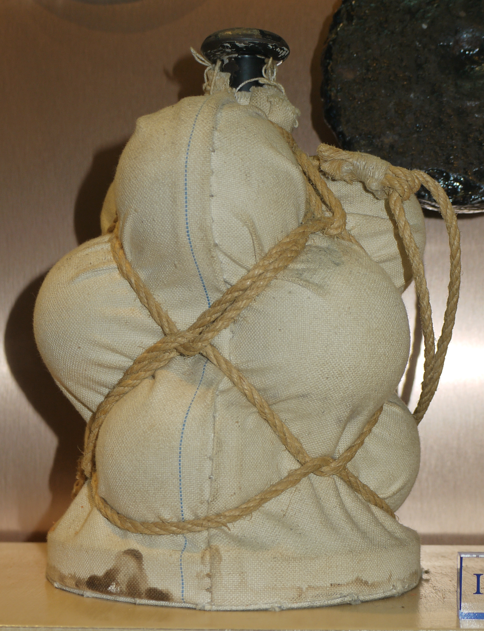 Photo of an example of grapeshot